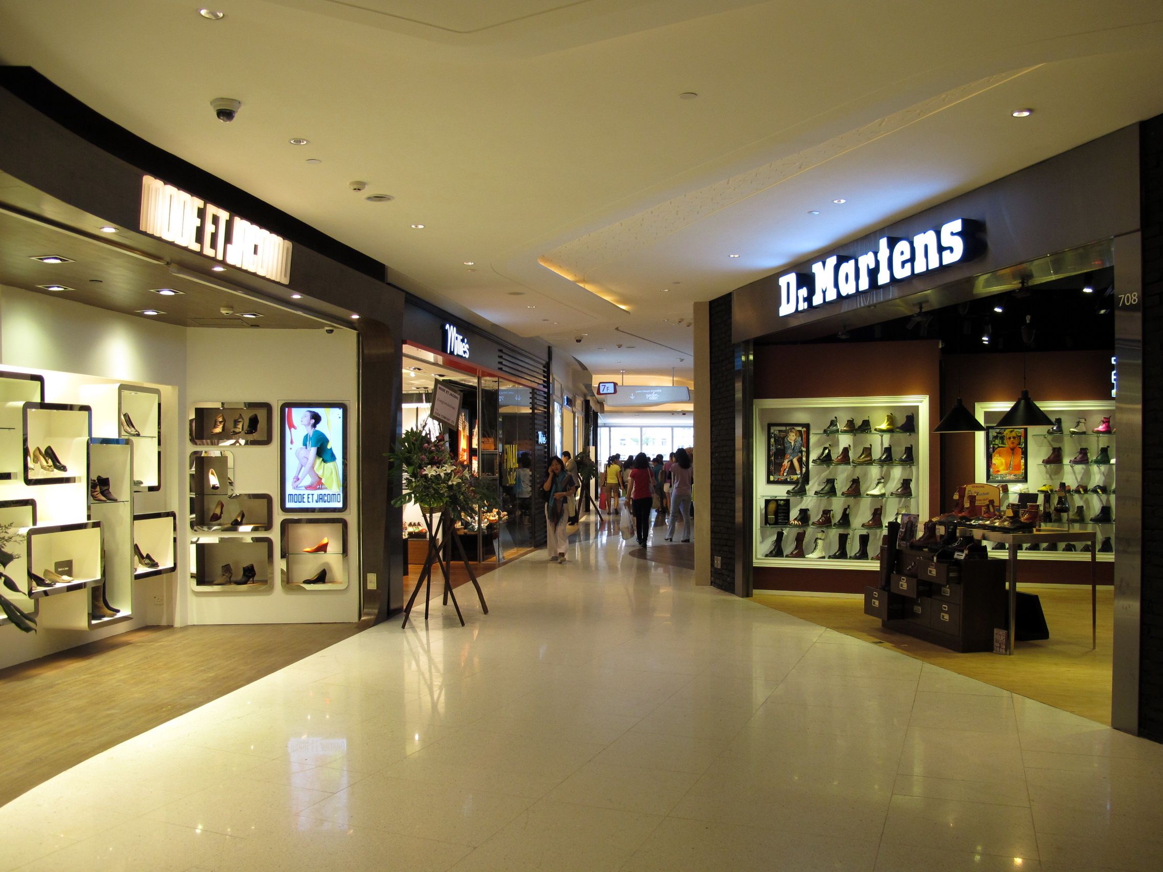 Hysan Place Level 7